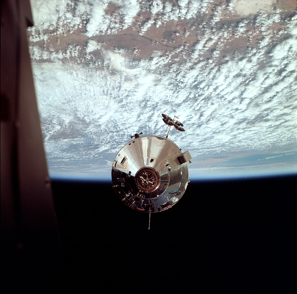 Apollo 9 CSM prior docking.